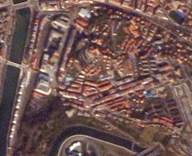 Egia, Donostia, Gipuzkoa, Basque Country